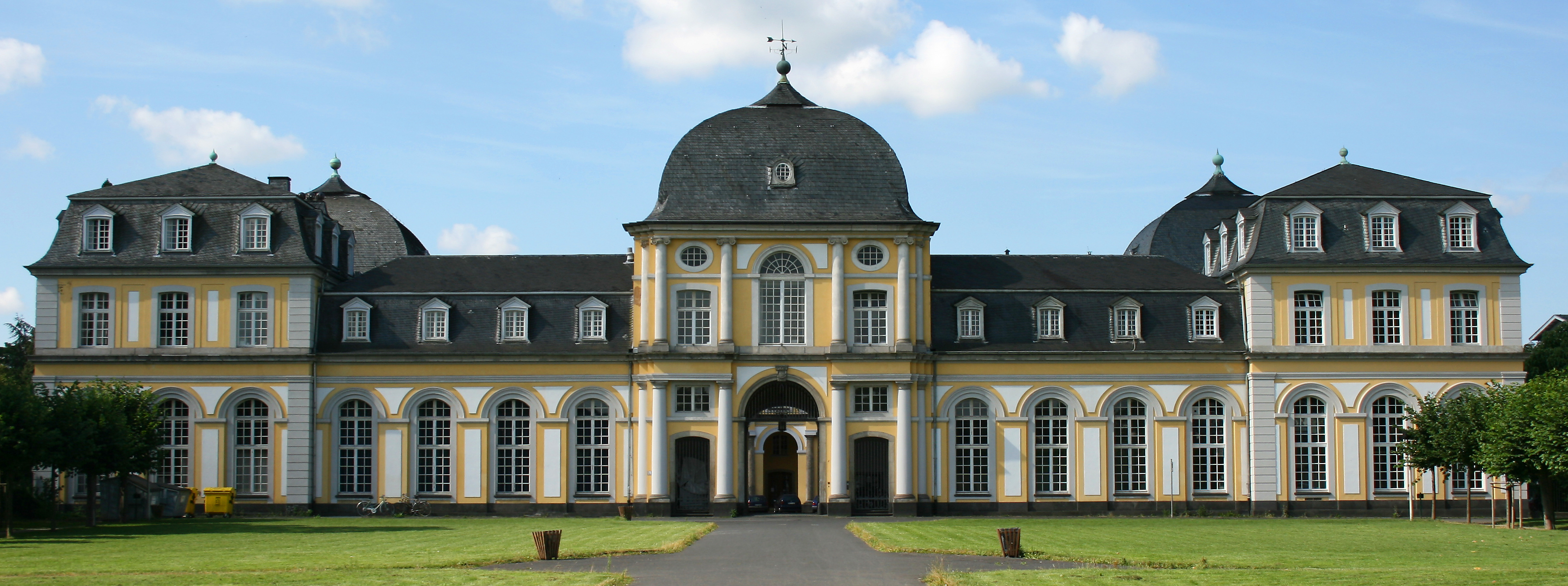 Entrance facade (northeast side) of the Poppelsdorf Palace in Bonn, Germany